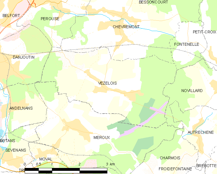 Map of French municipality Vézelois